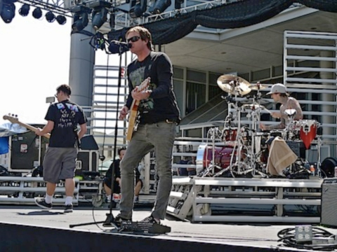 Blink 182 at the T-Mobile Sidekick LX launch in Hollywood, CA. Info Blink-182's first live performance in 5 years took place at the T-Mobile Sidekick LX launch in Hollywood. The image was taken at 4:30PM, as the band was rehearsing for the event.